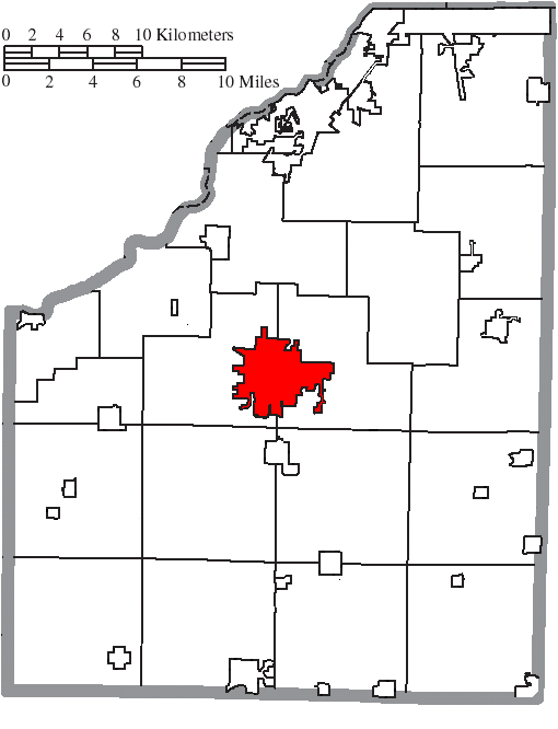 Map of the municipal and township boundaries of Wood County, Ohio, United States, as of the 2000 census, with the location of the city of Bowling Green highlighted. Township borders are shown only in unincorporated areas in order to differentiate incorporated and unincorporated areas more clearly.